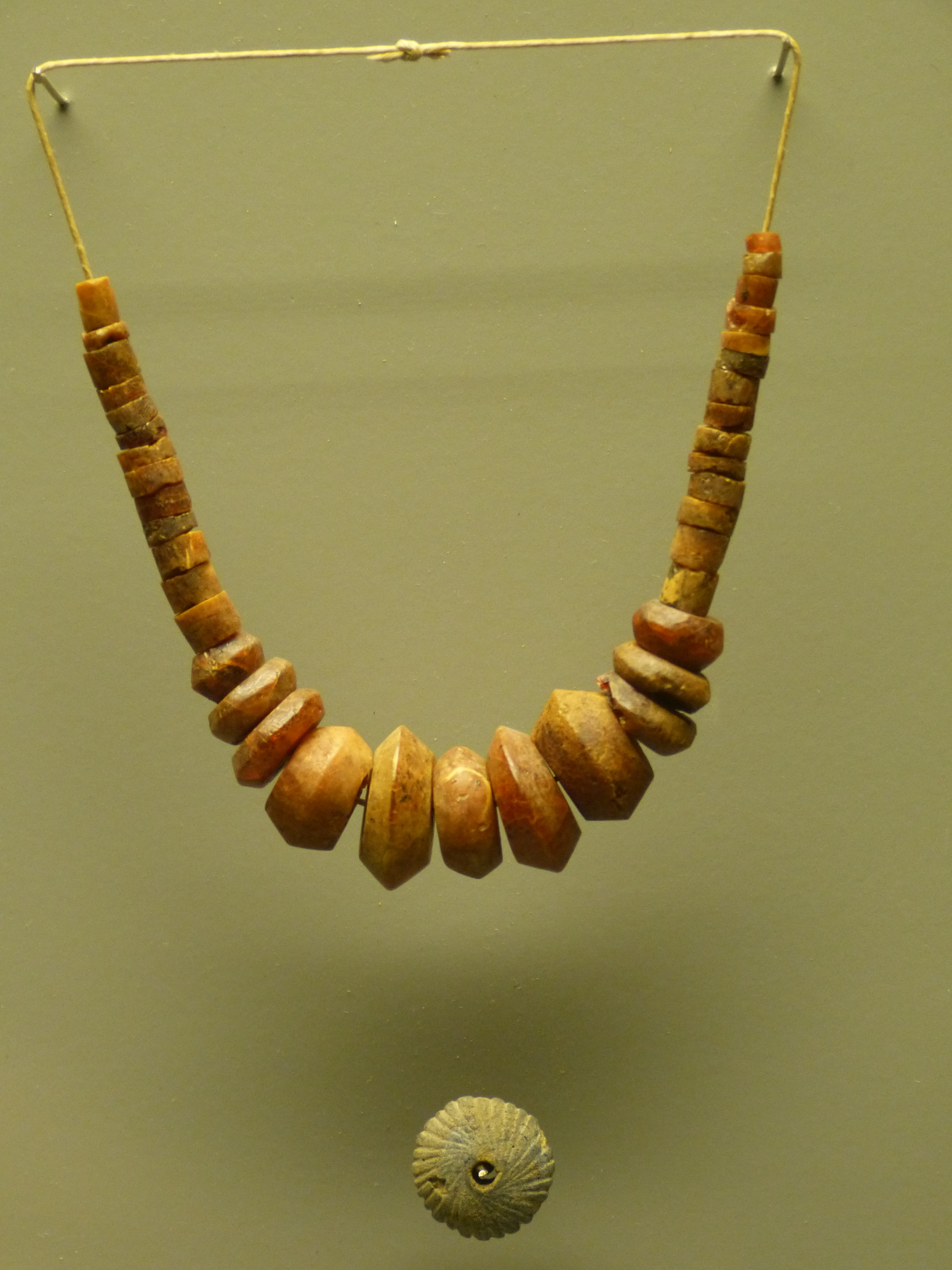 Landau an der Isar ( Lower Bavaria ). Archaeological Museum of Lower Bavaria: Bronze age amber necklace and faience bead, from tumuli in Pörndorf